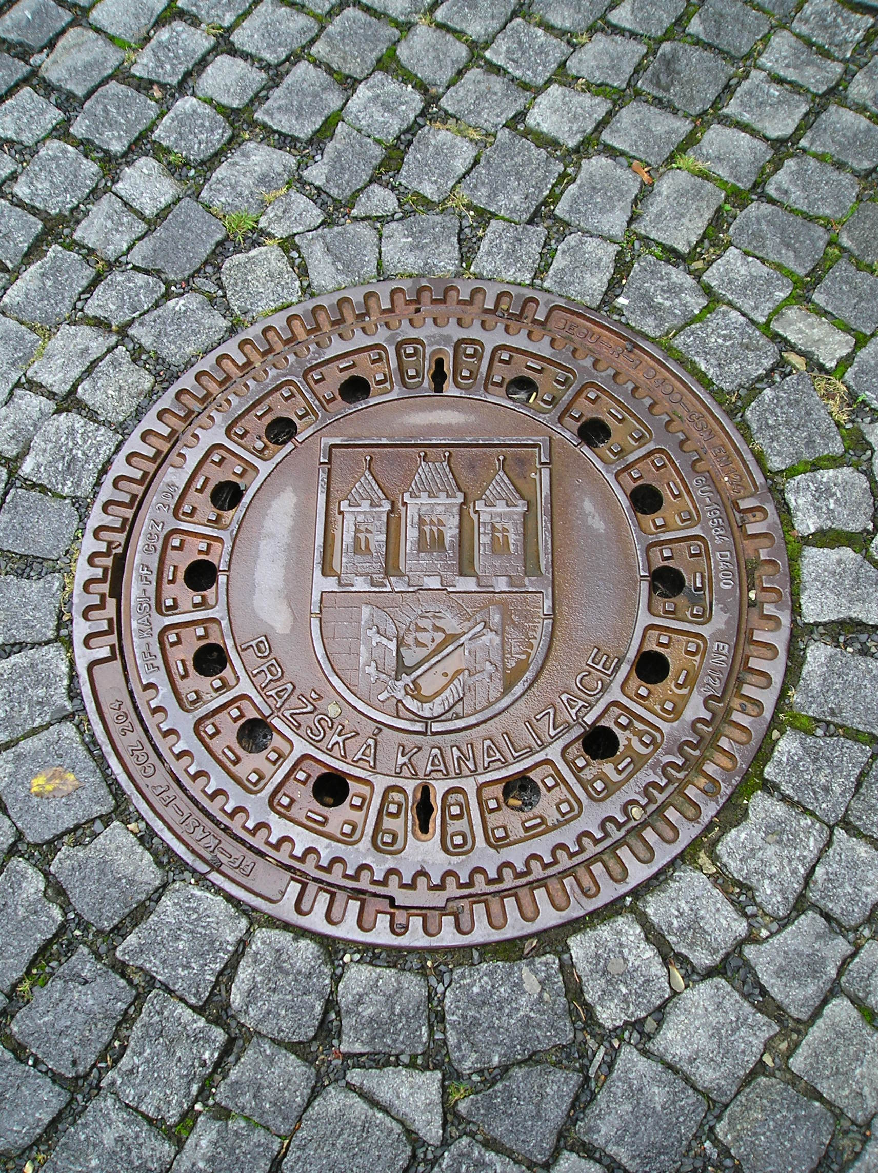 Prague - Manhole cover, U Perníkářky street